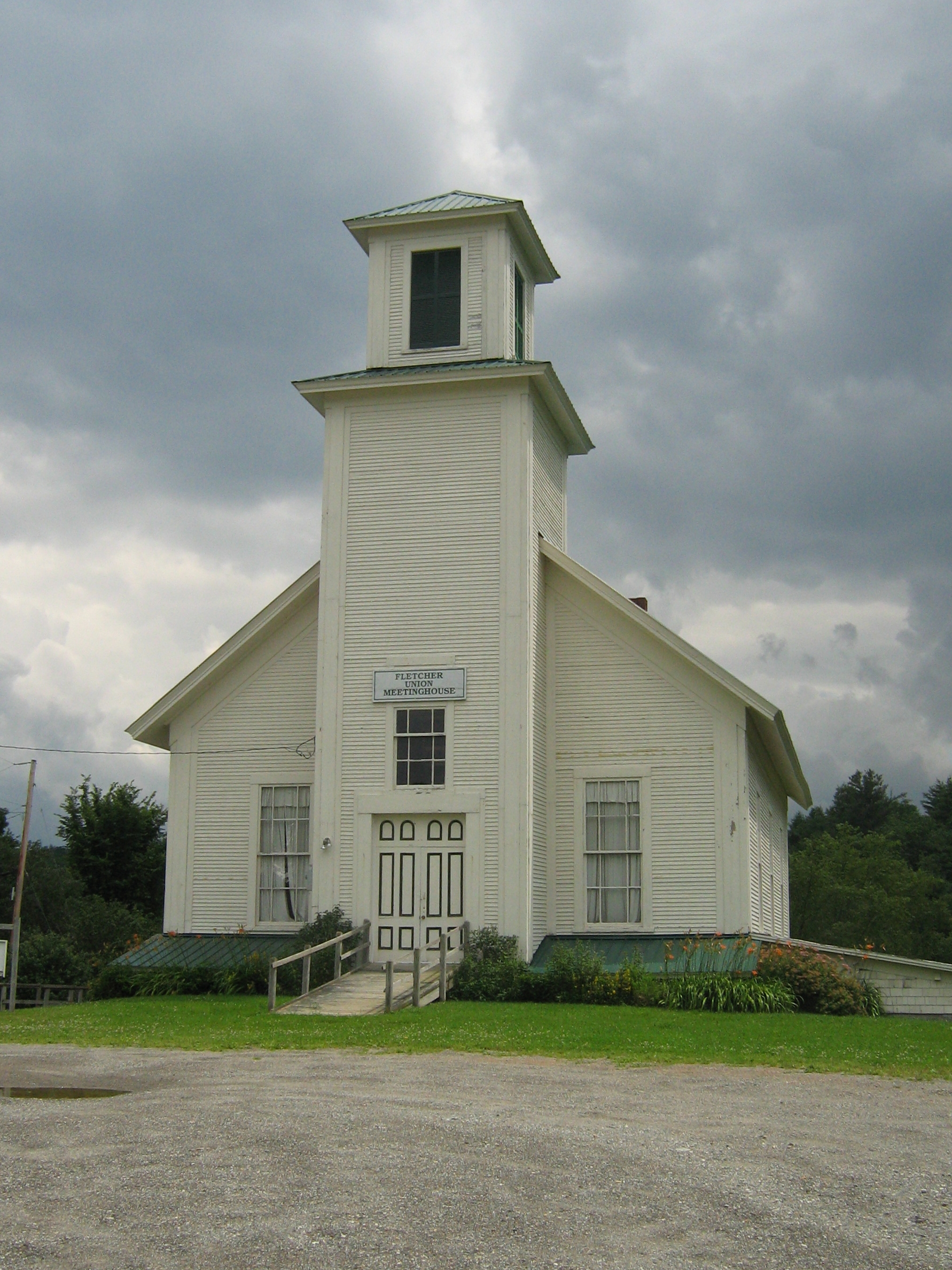 Fletcher Union Church, a still-active meeting house and non-denominational church in Fletcher, Vermont, listed on the National Register of Historic Places since 1982